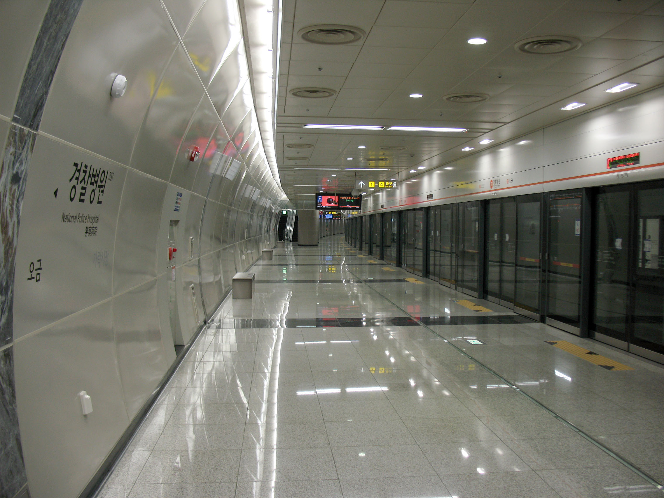 The platform at National Police Hospital Station.